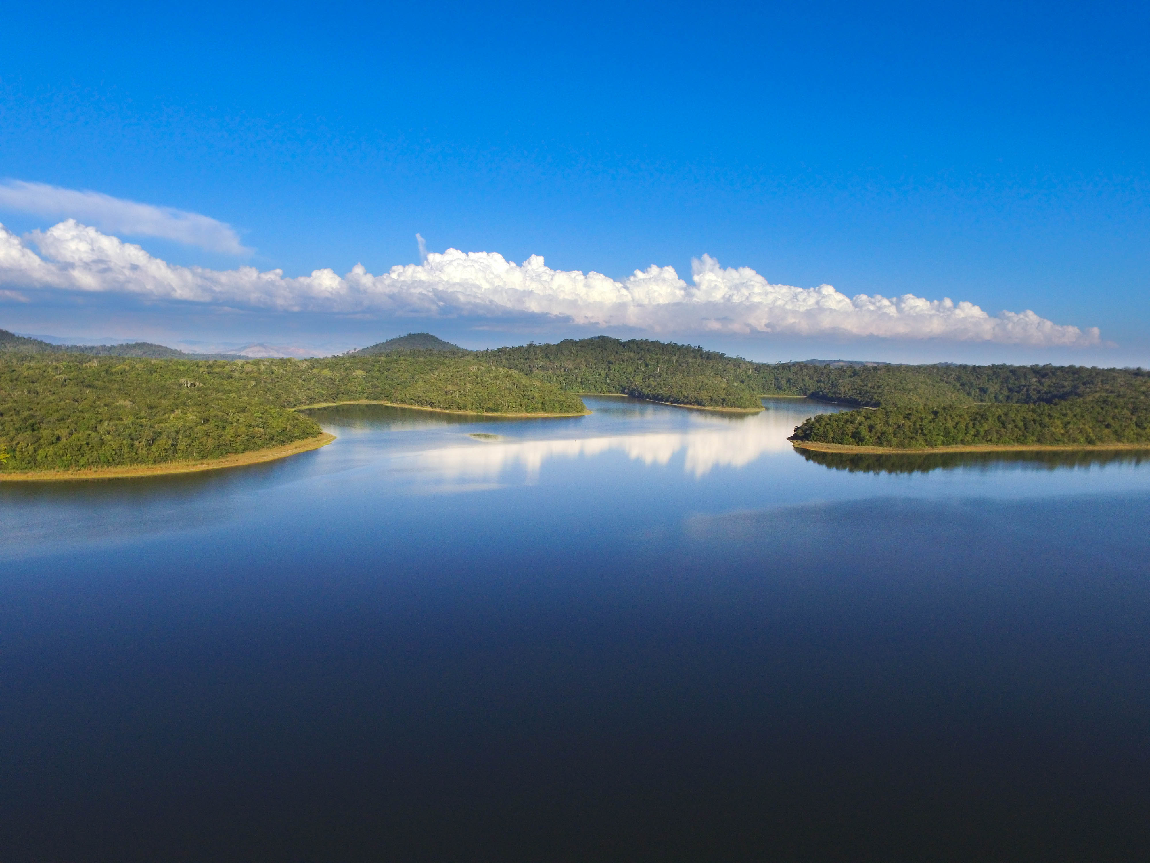 DCIM\100MEDIA\DJI_0014.JPG